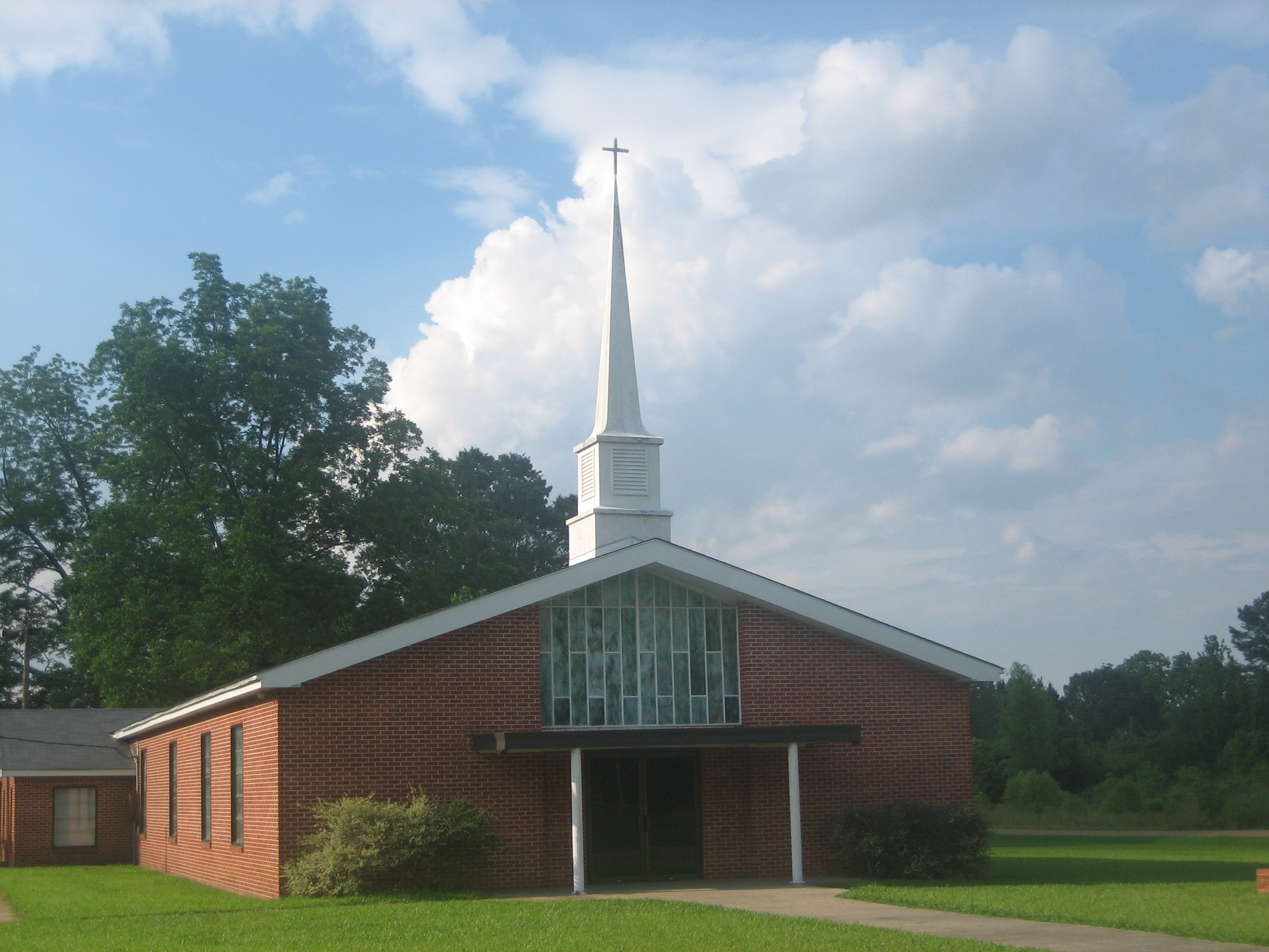 I took photo on May 25, 2009.Billy Hathorn (talk) 02:56, 30 May 2009 (UTC)